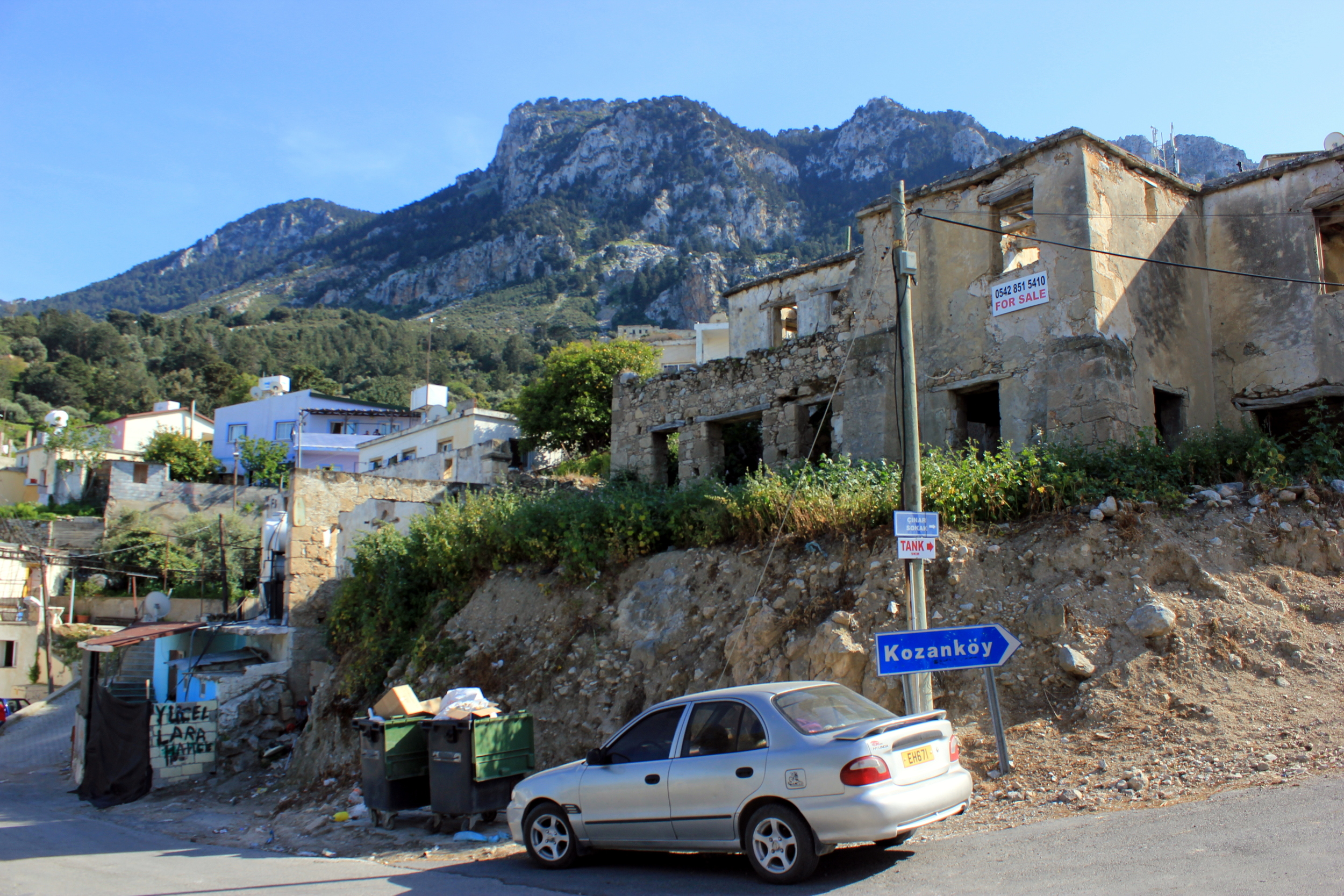 Crossroads in Vasileia, Northern Cyprus.